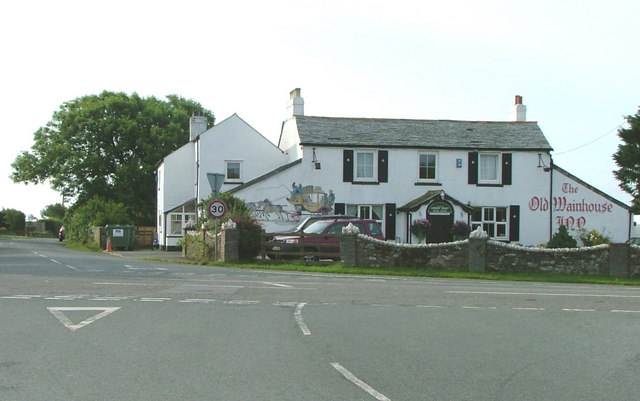 Old Wainhouse Inn. Situated at Wainhouse Corner, it has a large wall-painting of a coach and four on the outside. It serves its own beer 'Old Wainhouse'